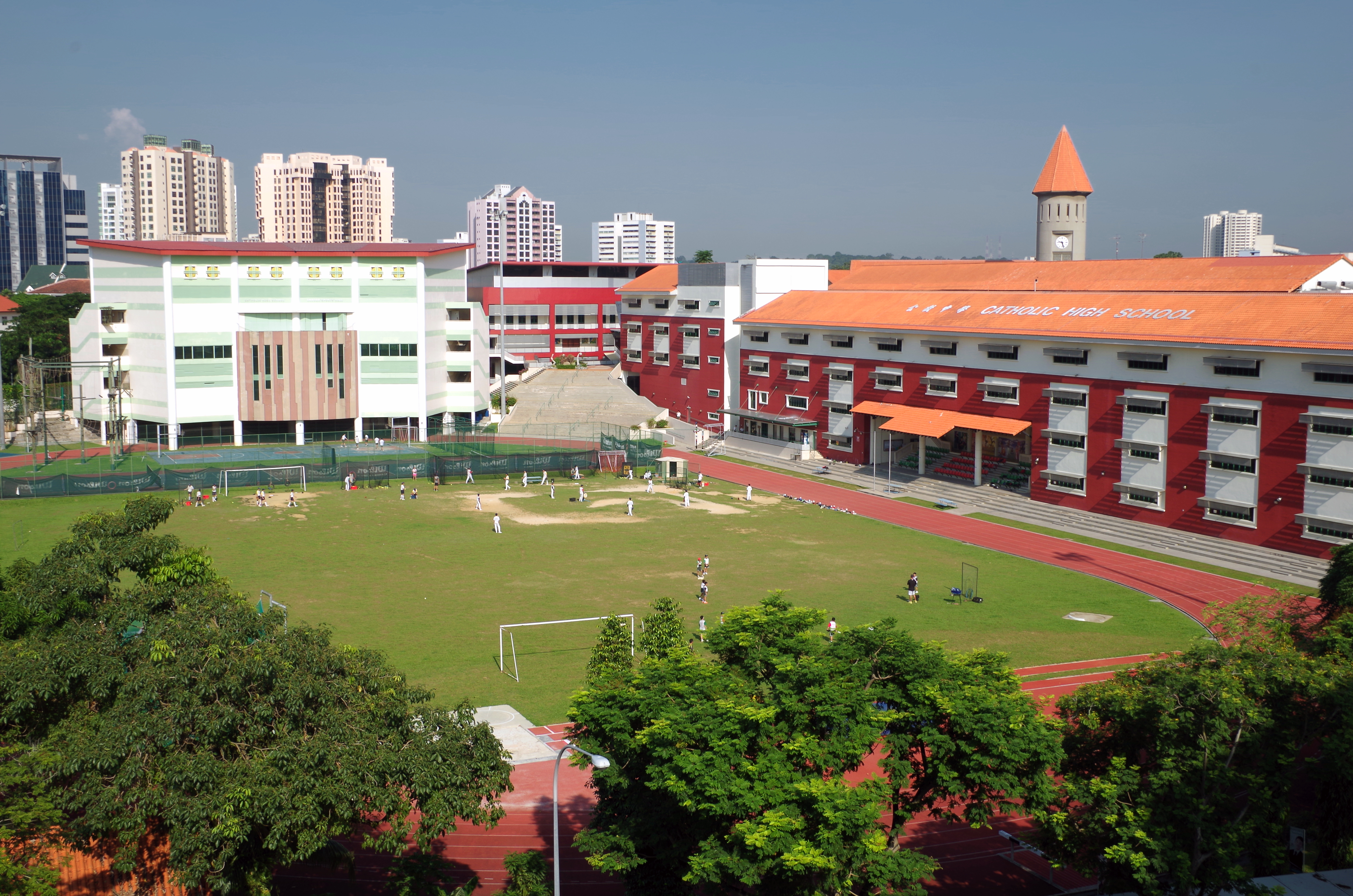 This view of Catholic High School shows the 400-metre running track, along with the Indoor Sports Hall (on left) and the main secondary classroom building (on right). The signature Clock Tower can be seen behind the classroom block.